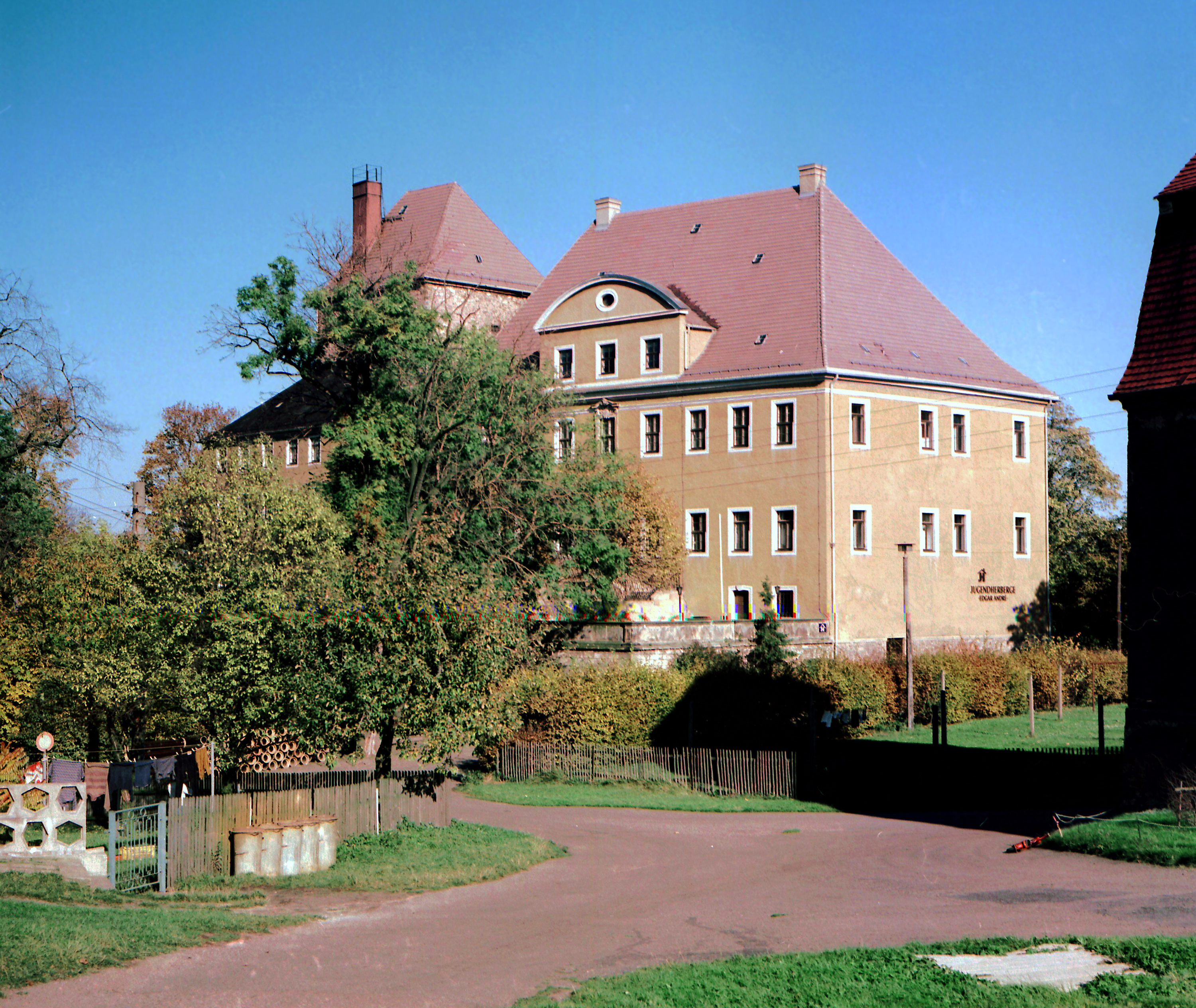 22.10.1989 9201 [09629] Bieberstein (Reinsberg): Neues Schloß, Im Wesentlichen 1666 mit Benutzung mittelalterlicher Teile. Um 1710 stark verändert. In der DDR Jugendherberge Edgar Andre. [R19891022A07.JPG]19891023320NR.JPG(c)Blobelt